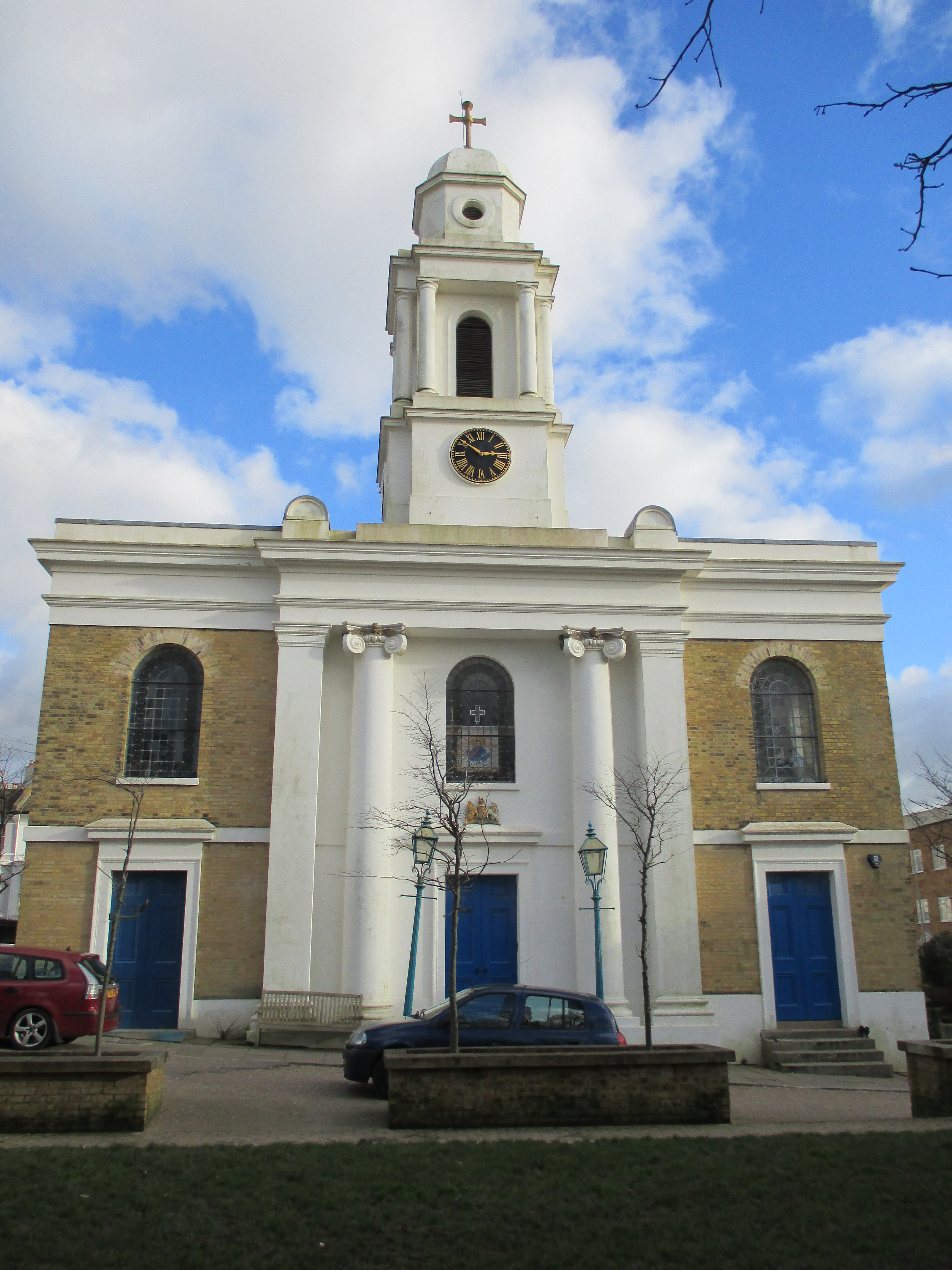 St George's parish church, Kemp Town, Brighton, seen from the northwest